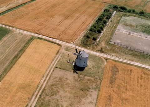 Windmill near Tés, Hungary